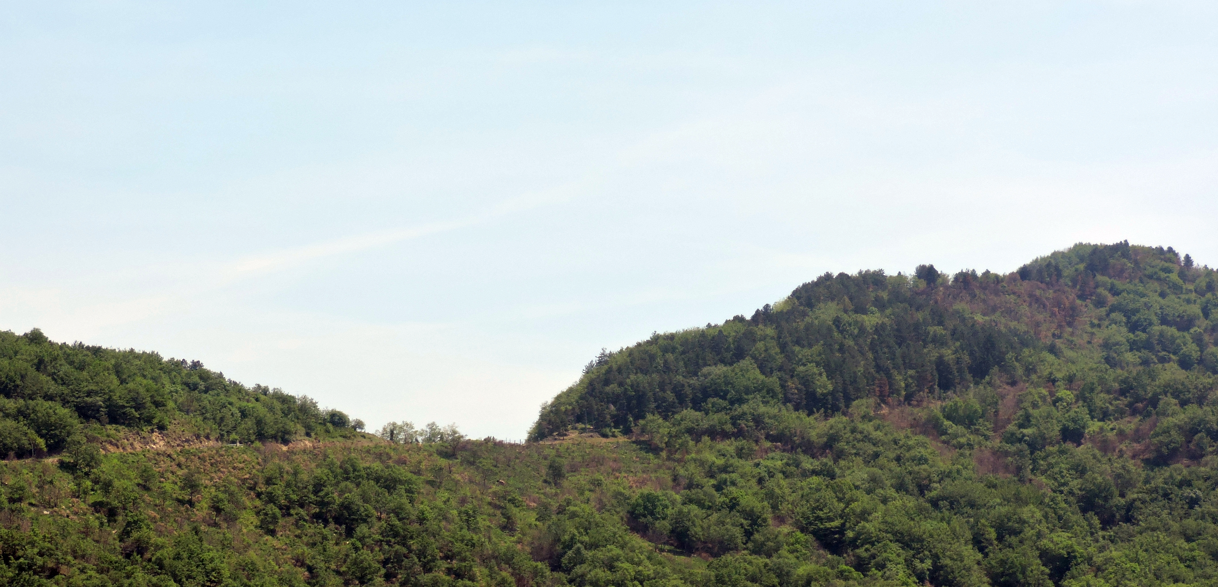 Passo del Ginestro (Ligurian Alps, Italy) as seen from Impero Valley side